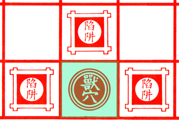 One section of a paper board of the Chinese board game Dou Shou Qi known in English as Jungle.